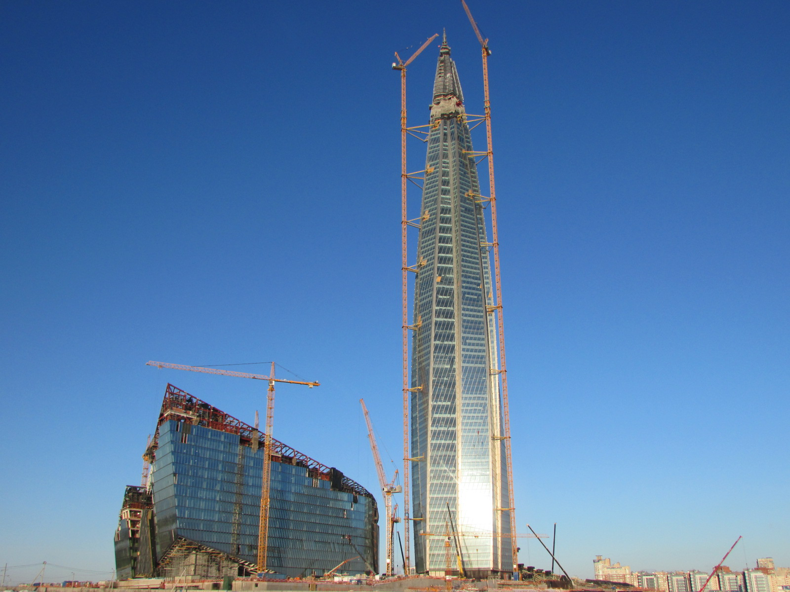 Lakhta Center